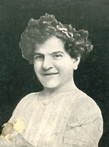 Photograph of Adelina Abranches (1866-1945), Portuguese actress